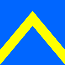 Municipal flag predating the 1997 rearrangement of municipalities